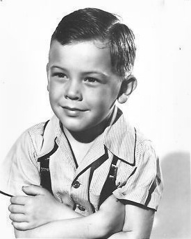 Publicity photo of American child actor, Bobby Driscoll promoting the 1944 20th Century Fox feature film The Fighting Sullivans.